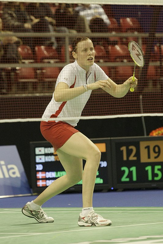 Kamilla Rytter Juhl, Wilson Swiss Open